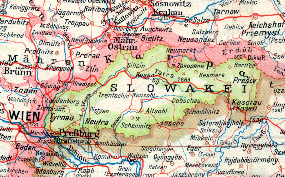 A part of a map of Europe in 1943, printed by the O.K.H.